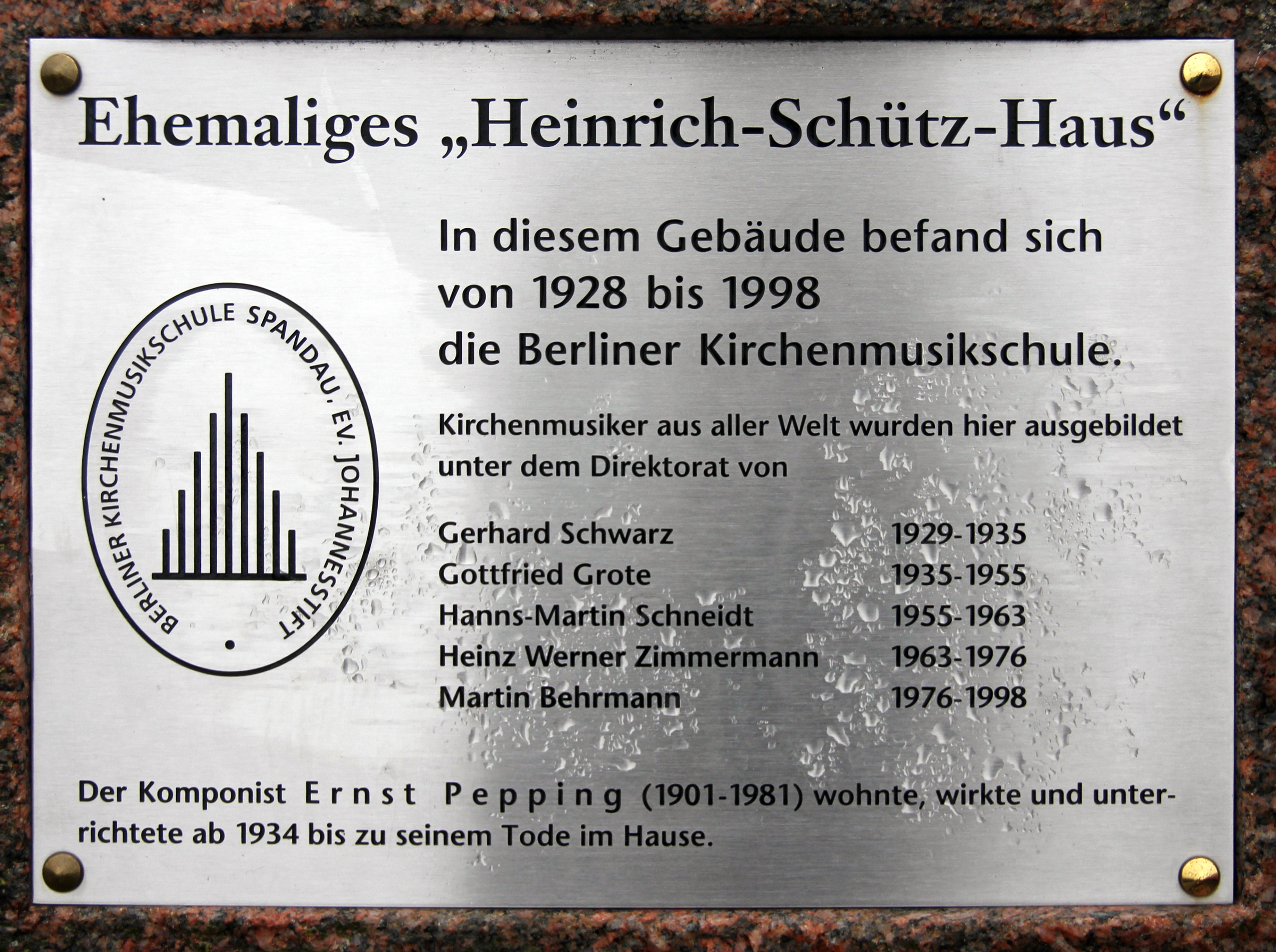 Memorial plaque, Heinrich Schütz Haus, Schönwalder Allee 26, Berlin-Hakenfelde, Deutschland